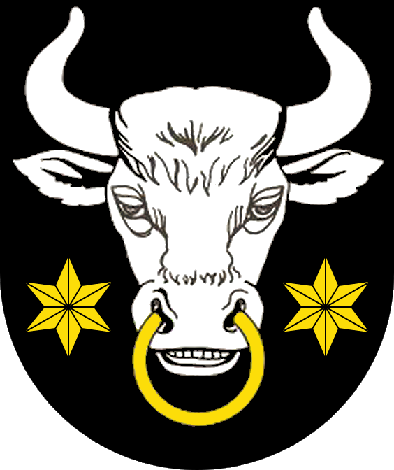 Coat of arms of the German city of Schlieben